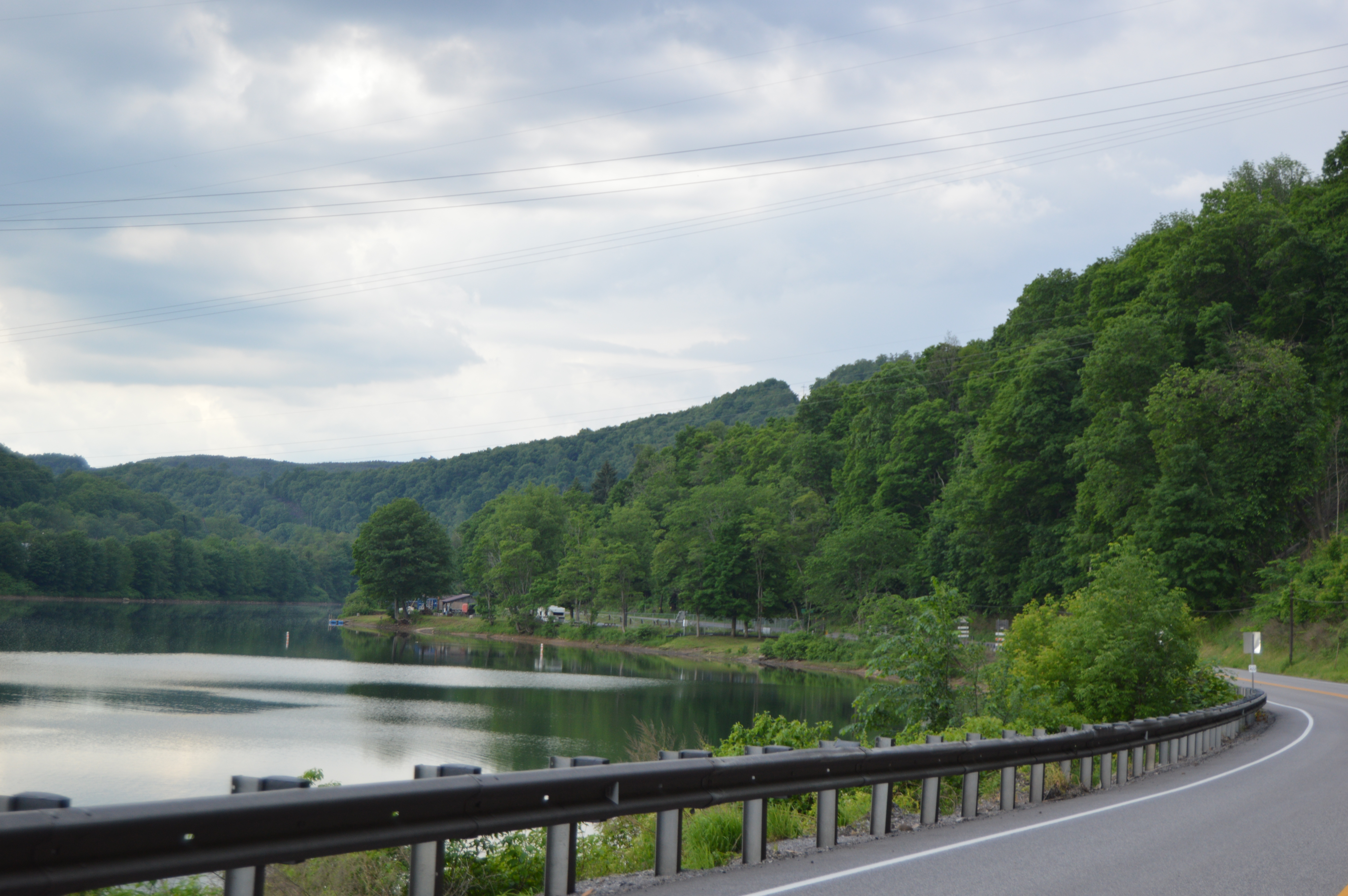 Looking upstream along the Susquehanna River along Pennsylvania Route 879 just southwest of Shawville in far southern Goshen Township, Clearfield County, Pennsylvania, United States.